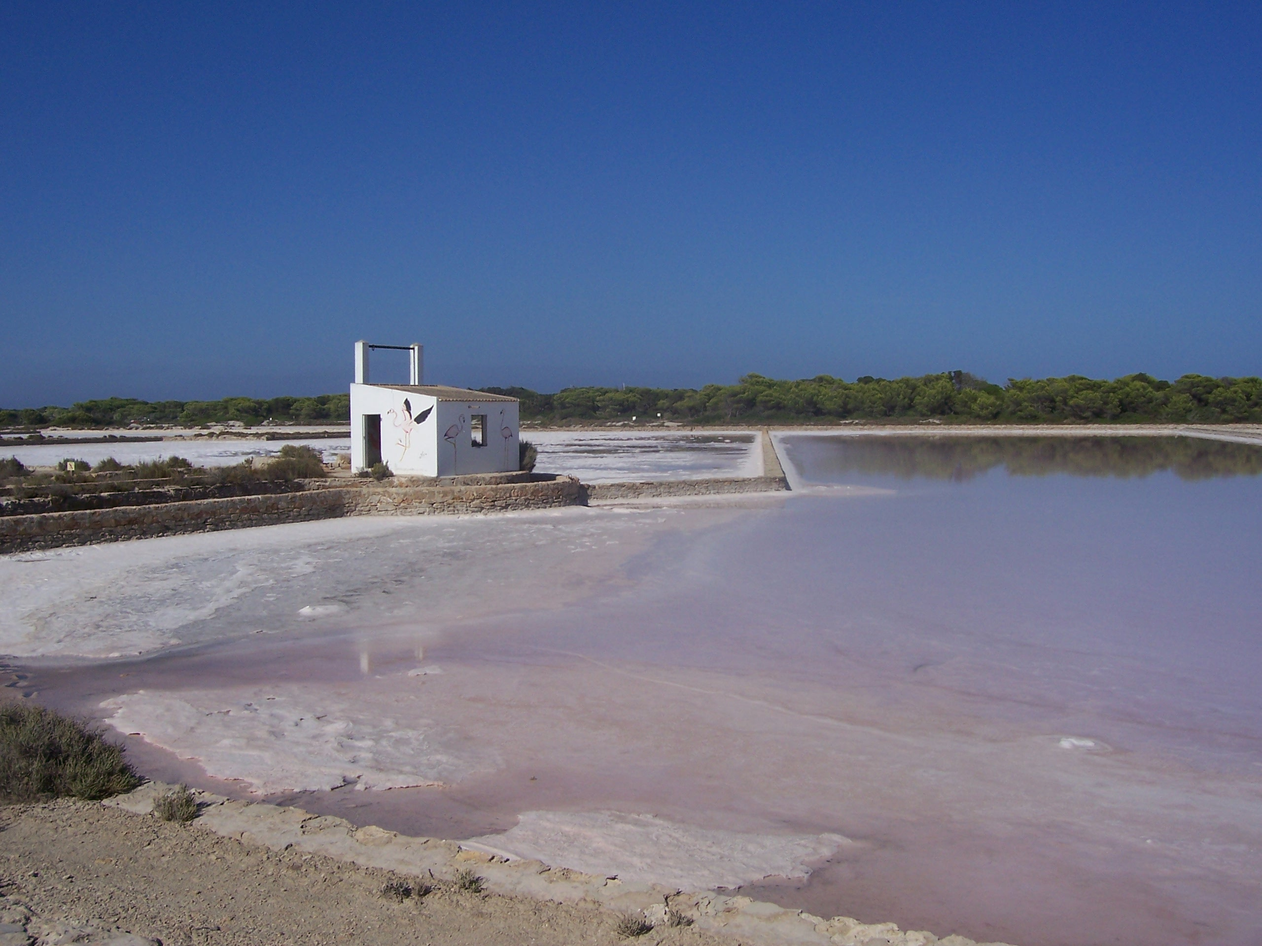 Formentera, Ses Salines